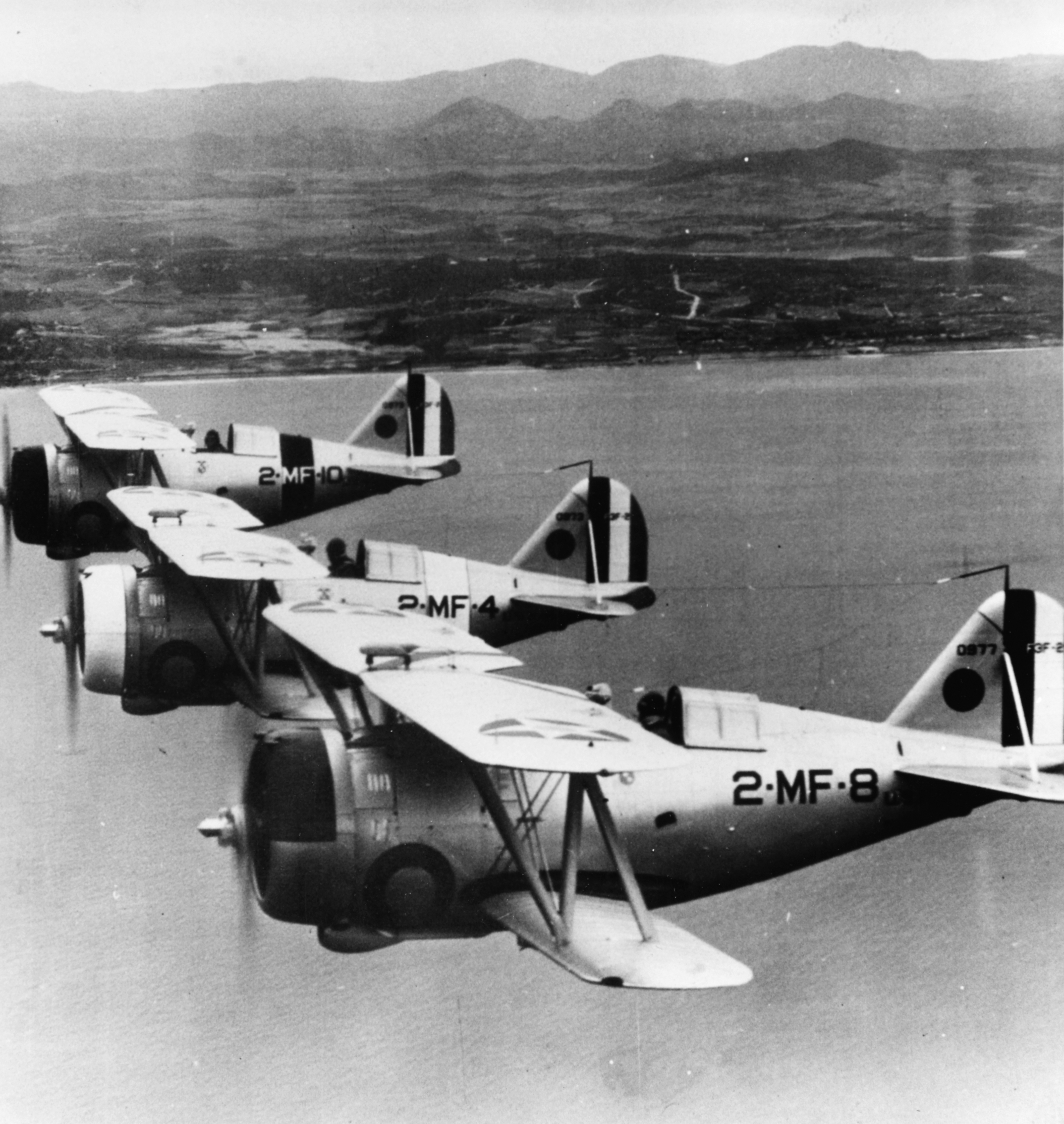 Three U.S. Marine Corps Grumman F3F-2 of Marine Fighting Squadron 2 (VMF-2) flying in formation, during the later 1930s. The planes are (from front to back): BuNos 0977, 0973 and 0979.